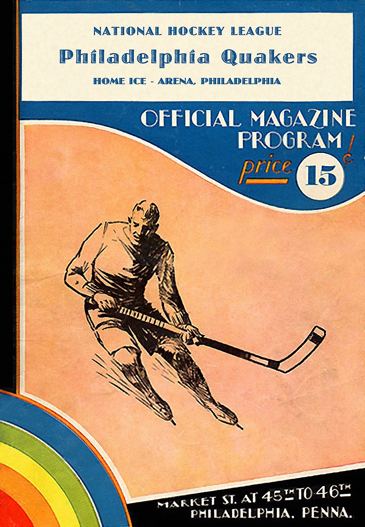 1930-31 Philadelphia Quakers (NHL) game program cover